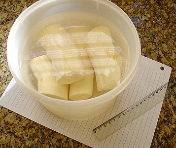 Peeled cassava root soaking in water. Ruler is 20 cm long, 1 cm marks.